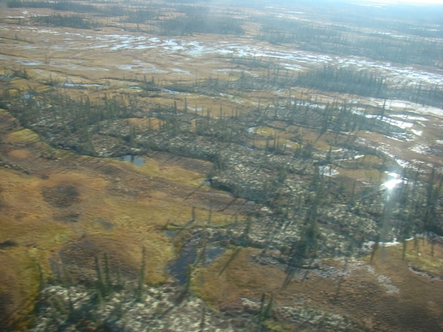 Collapse-scar bogs at Innoko National Wildlife Refuge, Alaska, USA. September, 2012.When permafrost thaws, the ground surface subsides and becomes inundated and the black spruce forest growing on the permafrost can no longer survive. Trees teetering and falling over in thawing permafrost are often referred to as "drunken trees." The black spruce forest is replaced by a saturated bog, dominated by sedges and mosses. This wholesale ecological transformation has large impacts on carbon cycling.